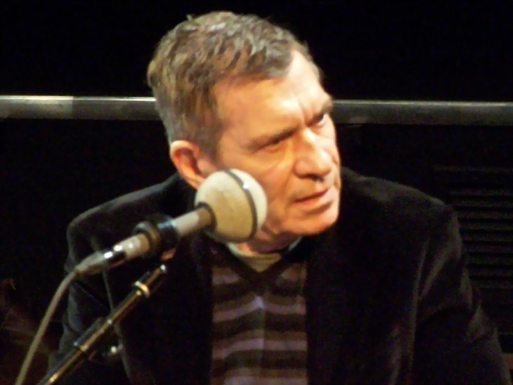 French critic and writter Jean-Louis Ézine (left) speaking with journalist and editor-in-chief Michel Crépu (right) at the radioshow Le Masque et la Plume recorded on Nov 15th 2012 (aired on Nov 25th 2012).